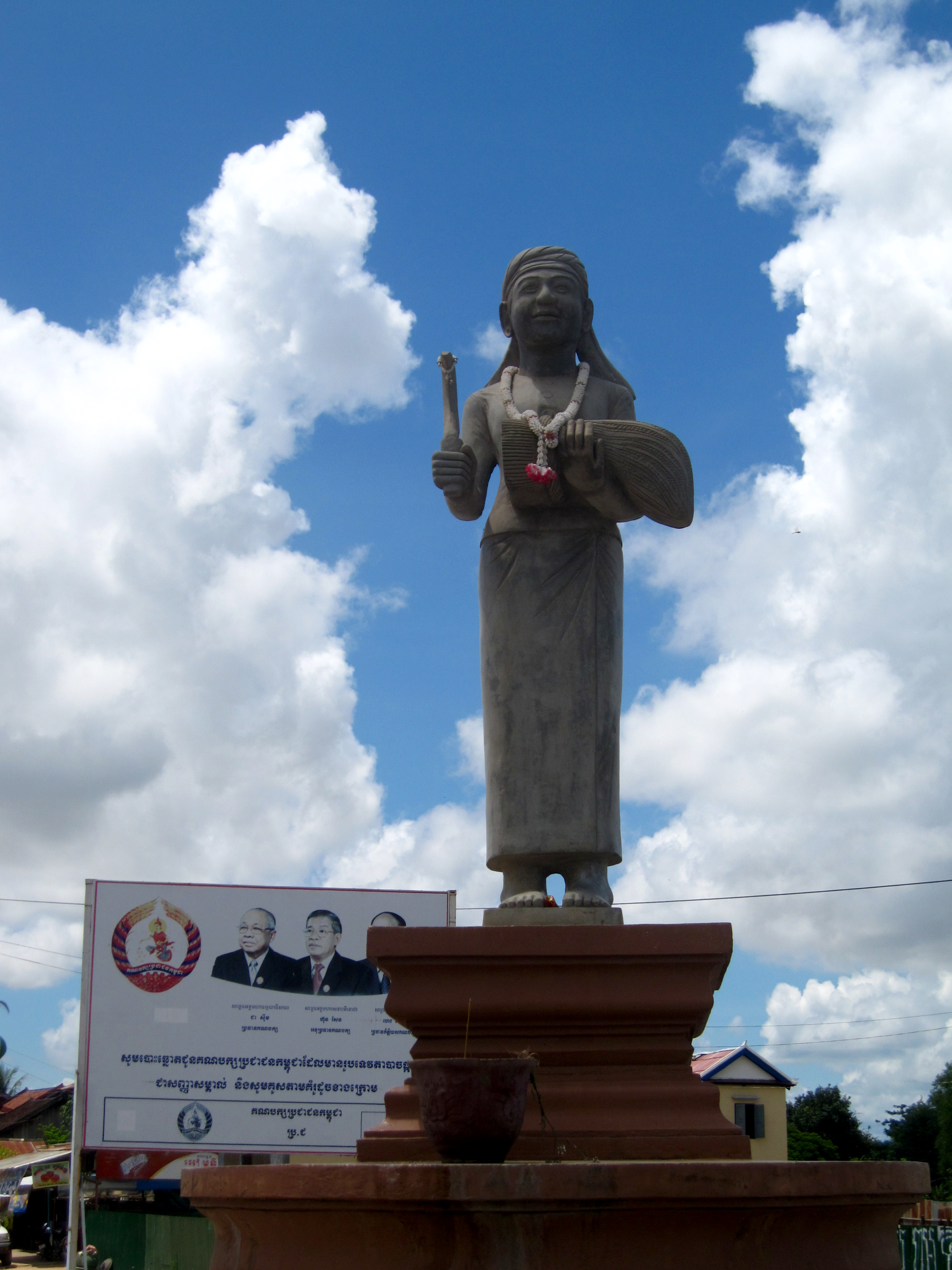 Statue of a woman with a sickle and rice sheaf in Puok, Siem Reap (Cambodia) in September 2010.